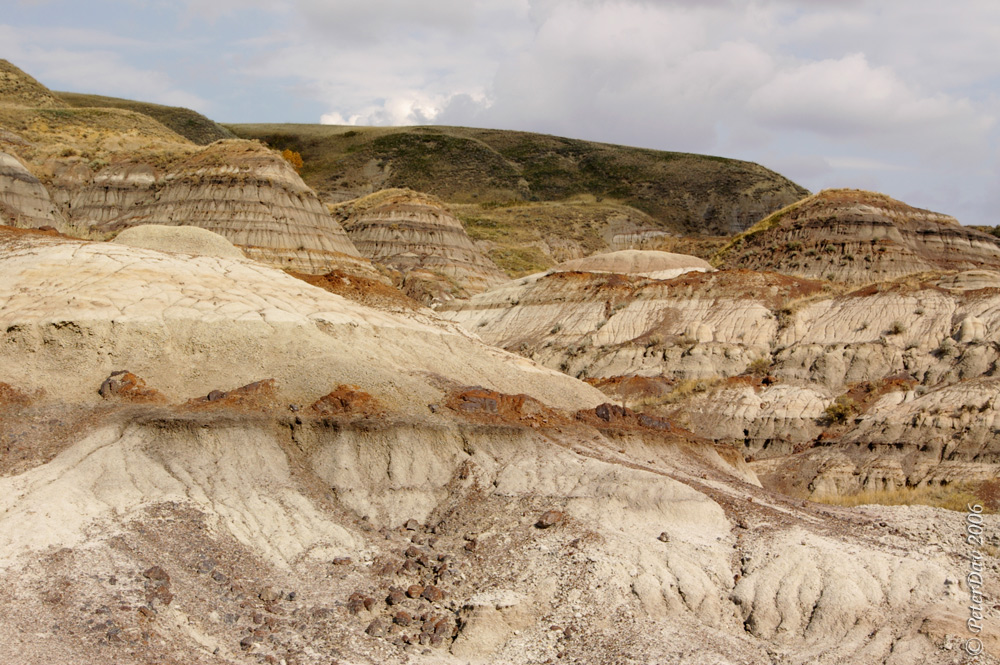 I took this picture in 2006 Summary I took this picture in 2006